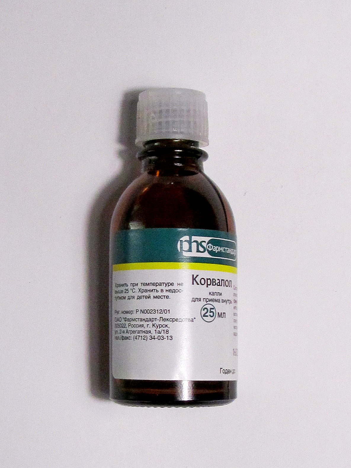 Corvalol (Корвалол, Corvalolum, Korvalol)® is a mild tranquilizer based on valerian (herb) root and phenobarbital, popular in Eastern Europe and the former Soviet Union as a heart medication.